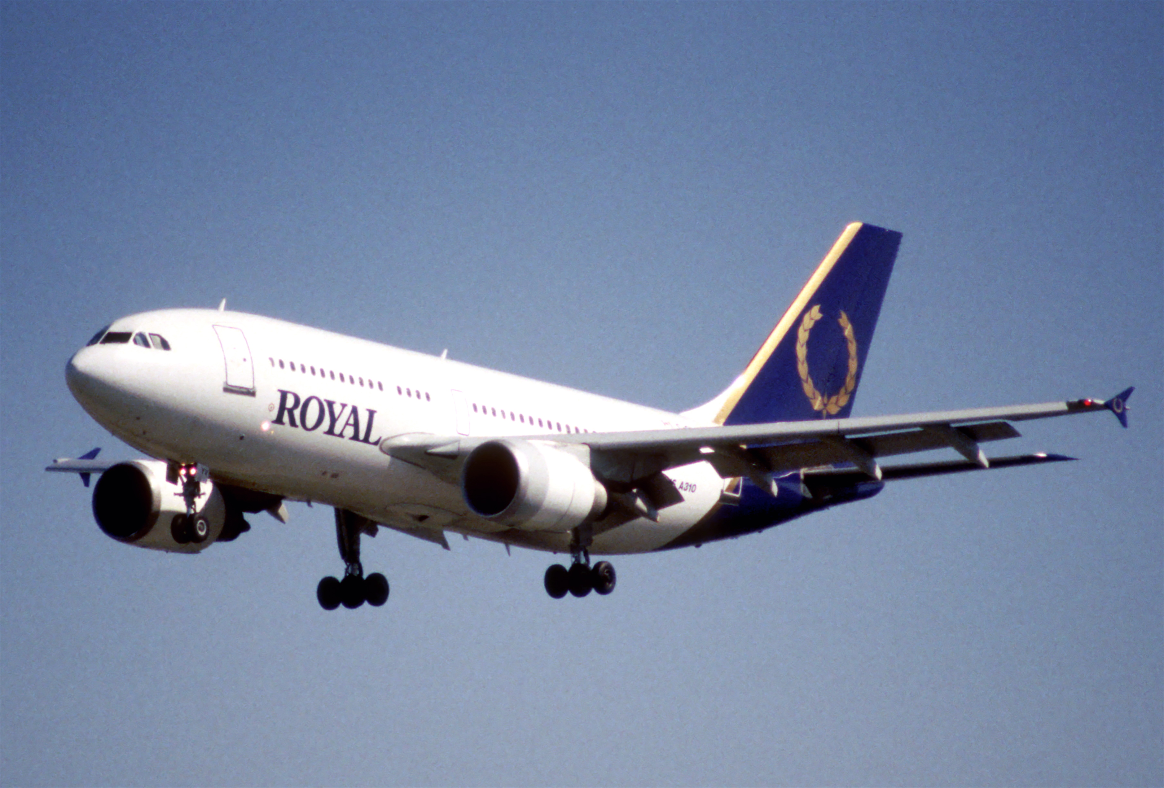 First flight: May 25, 1987...(c/n 440) 28/08/1987 CAAC B-2305 01/05/1988 China Eastern Airlines B-2305 01/12/1994 Air Afrique TU-TAR 04/06/1996 Oasis International Airlines EC-311 26/04/1997 Royal Airlines C-GRYV 29/01/2001 Canada 3000 Airlines C-GRYV 18/02/03 as N440XS - ferried Kemble for scrapping 19/05/2003 - cockpit used for a simulator